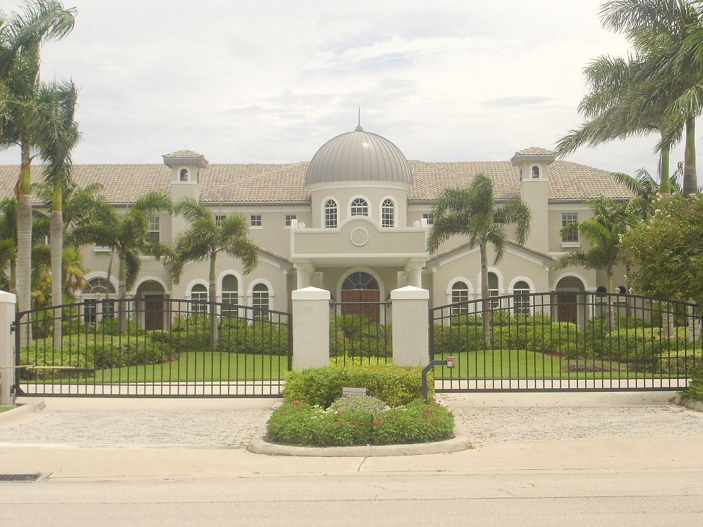 I took this picture on the Boca Raton campus of Florida Atlantic University on 8/20/06 between 12 and 1pm.